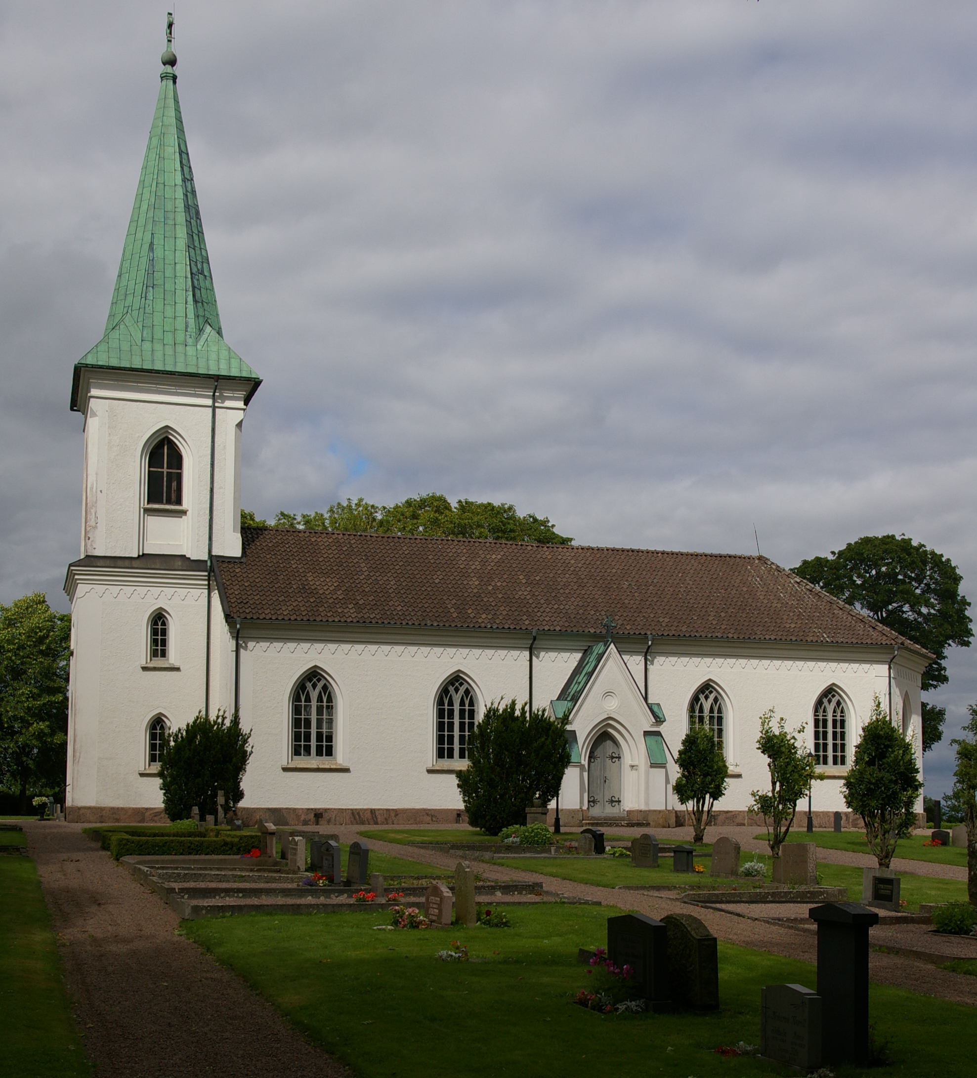 Sjogerstad church in Västergötland, Sweden.